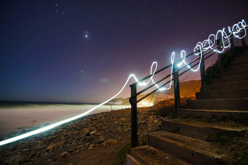 This is a photo taken by 2wenty, "Untitled", in Malibu, 2012.